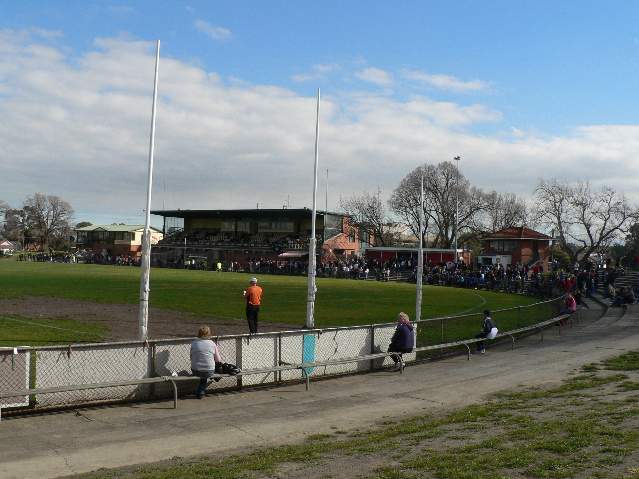 Preston City Oval.